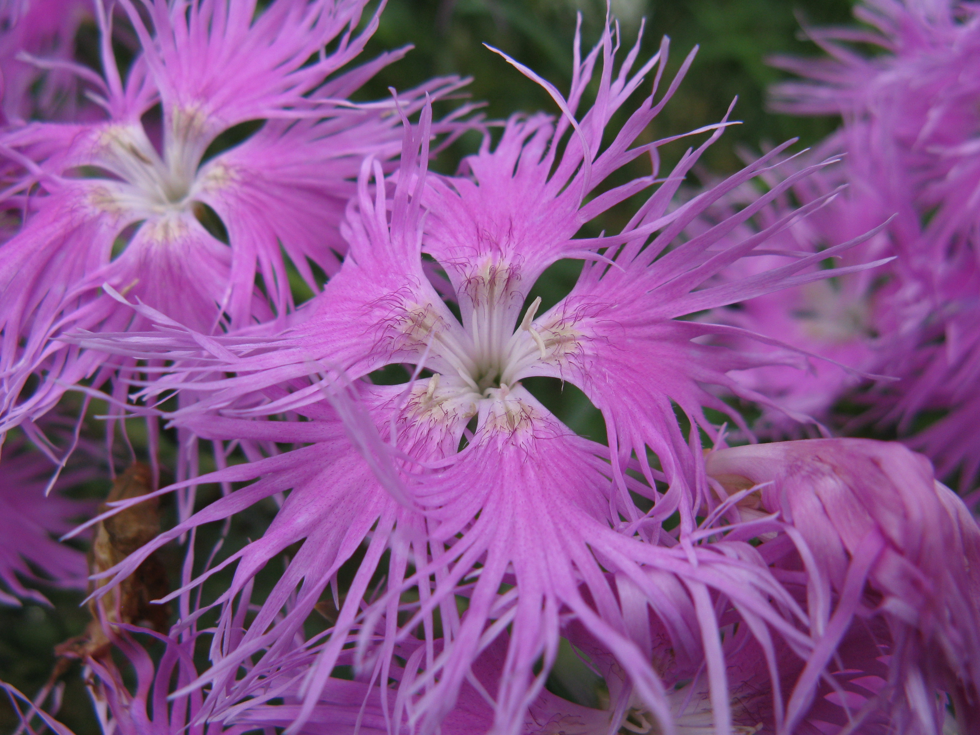 Dianthus superbus subsp. longicalycinus